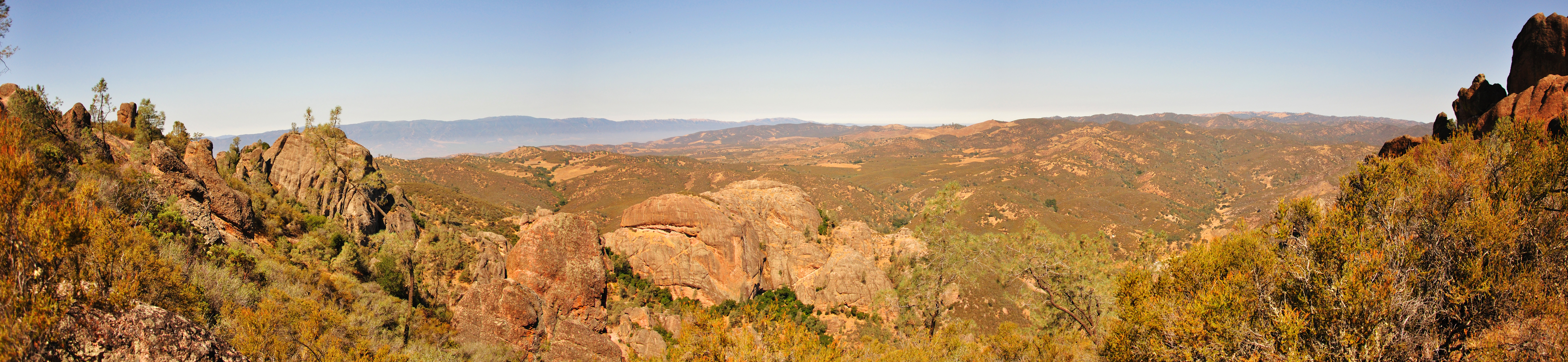 Panorama from the High Peaks Trail at Pinnacles National Monument